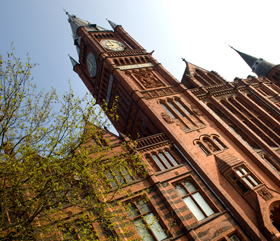 Victoria Building